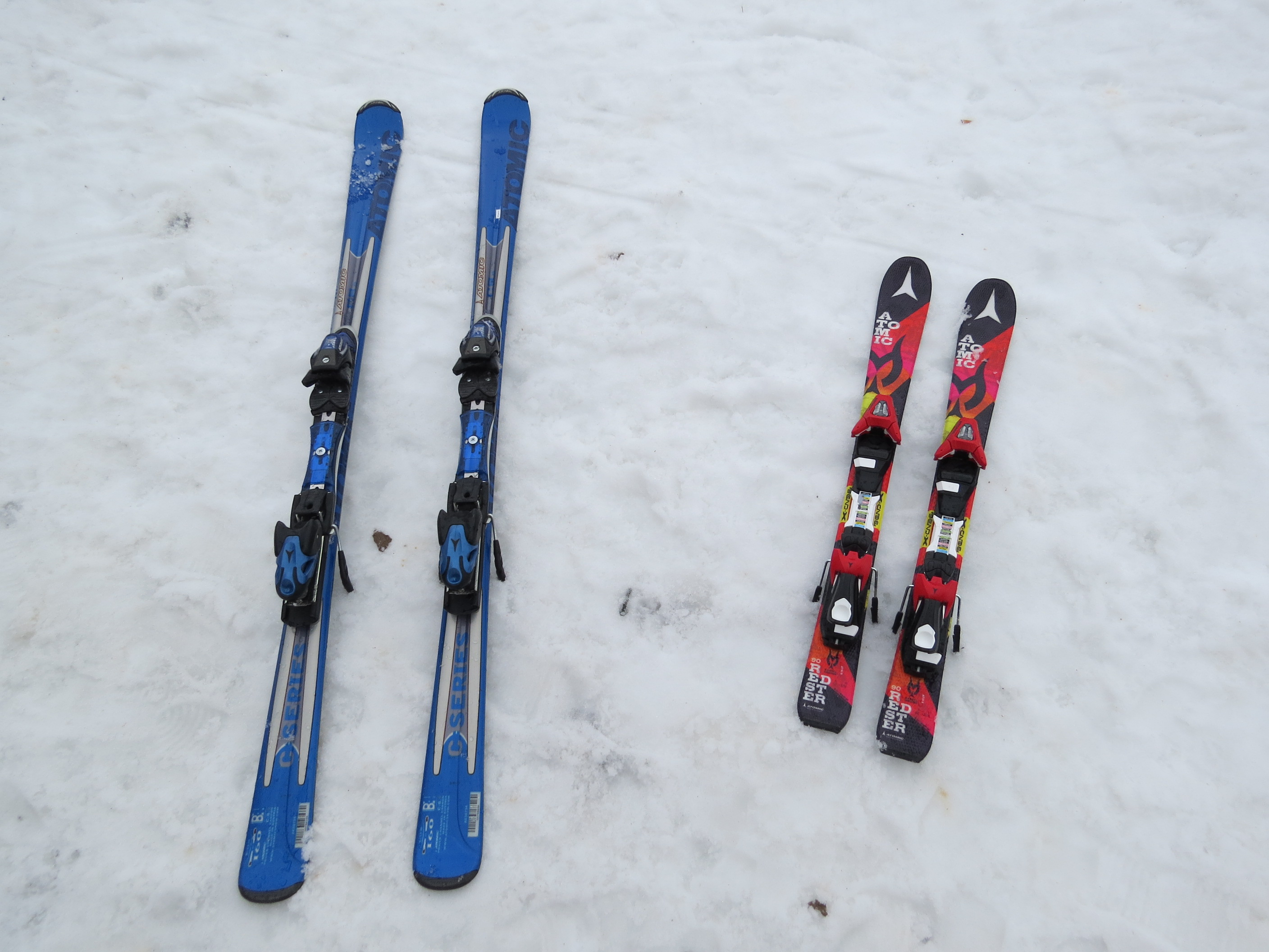 Atomic alpine skis in Annaberg, Lower Austria